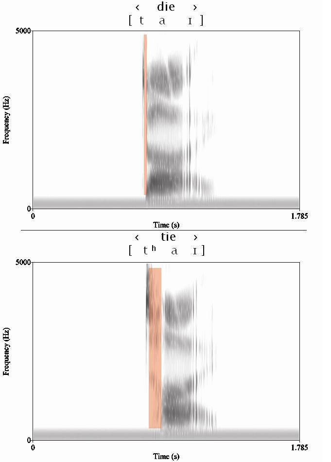 Spectrogram showing VOT differences in English "die" and "tie". Created using Praat v. 5.1.20.